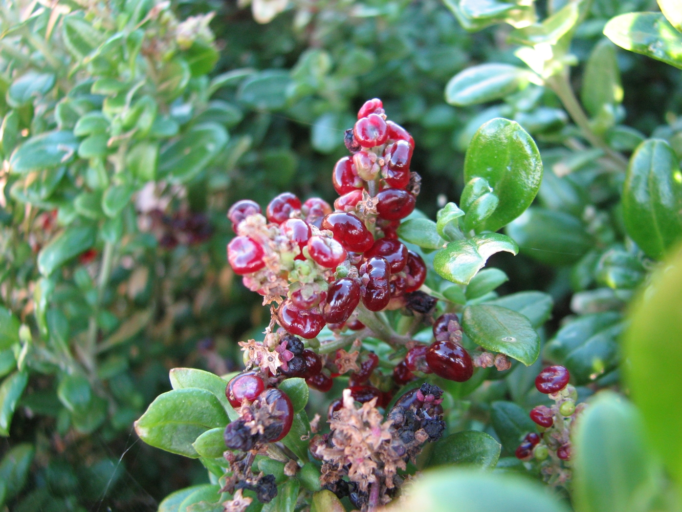 Chenopodium candolleanum (Syn. Rhagodia candolleana) Cape Woolamai, Victoria, Australia